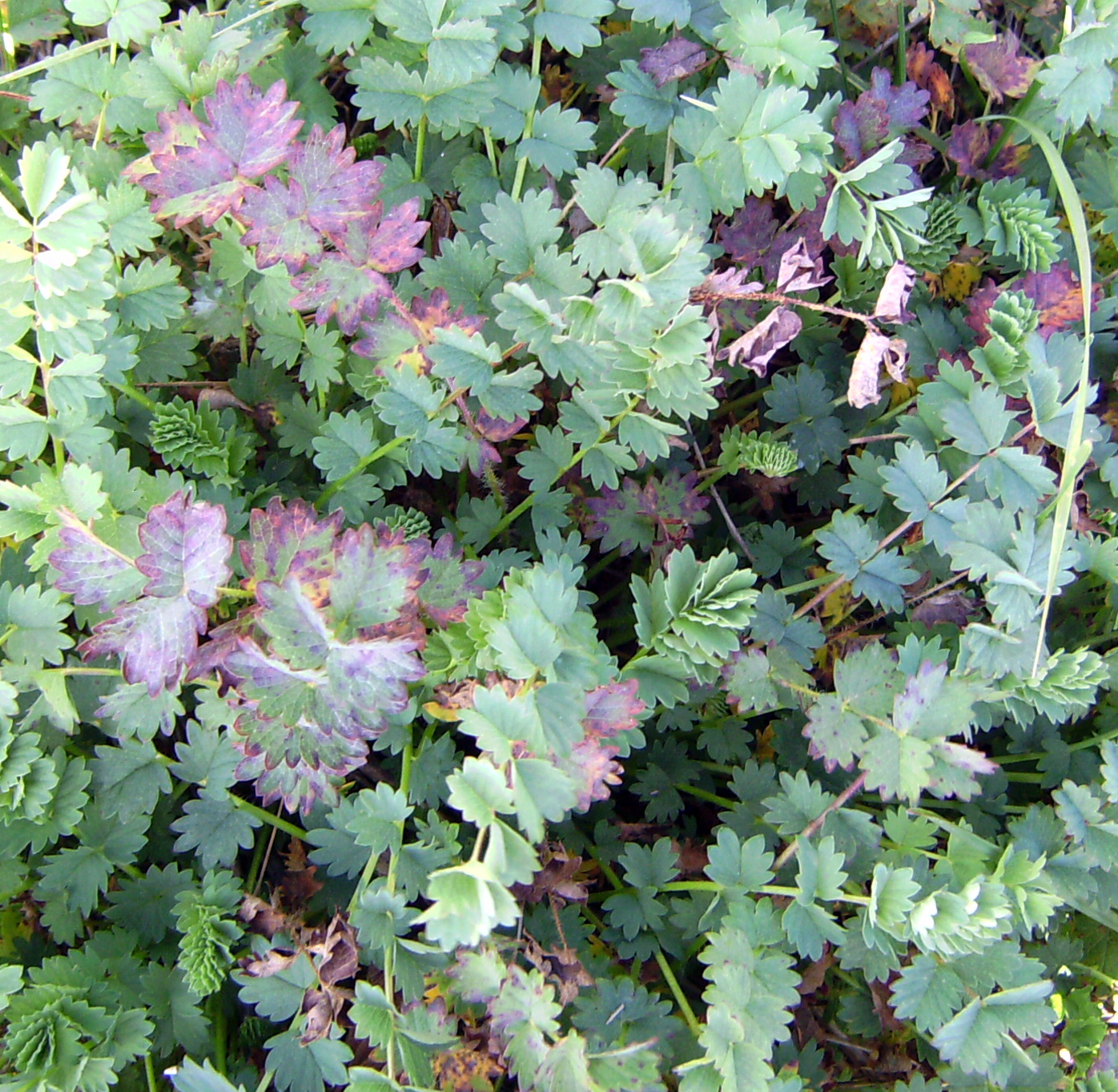 Sanguisorba minor in Novembre, Castelltallat, Catalonia